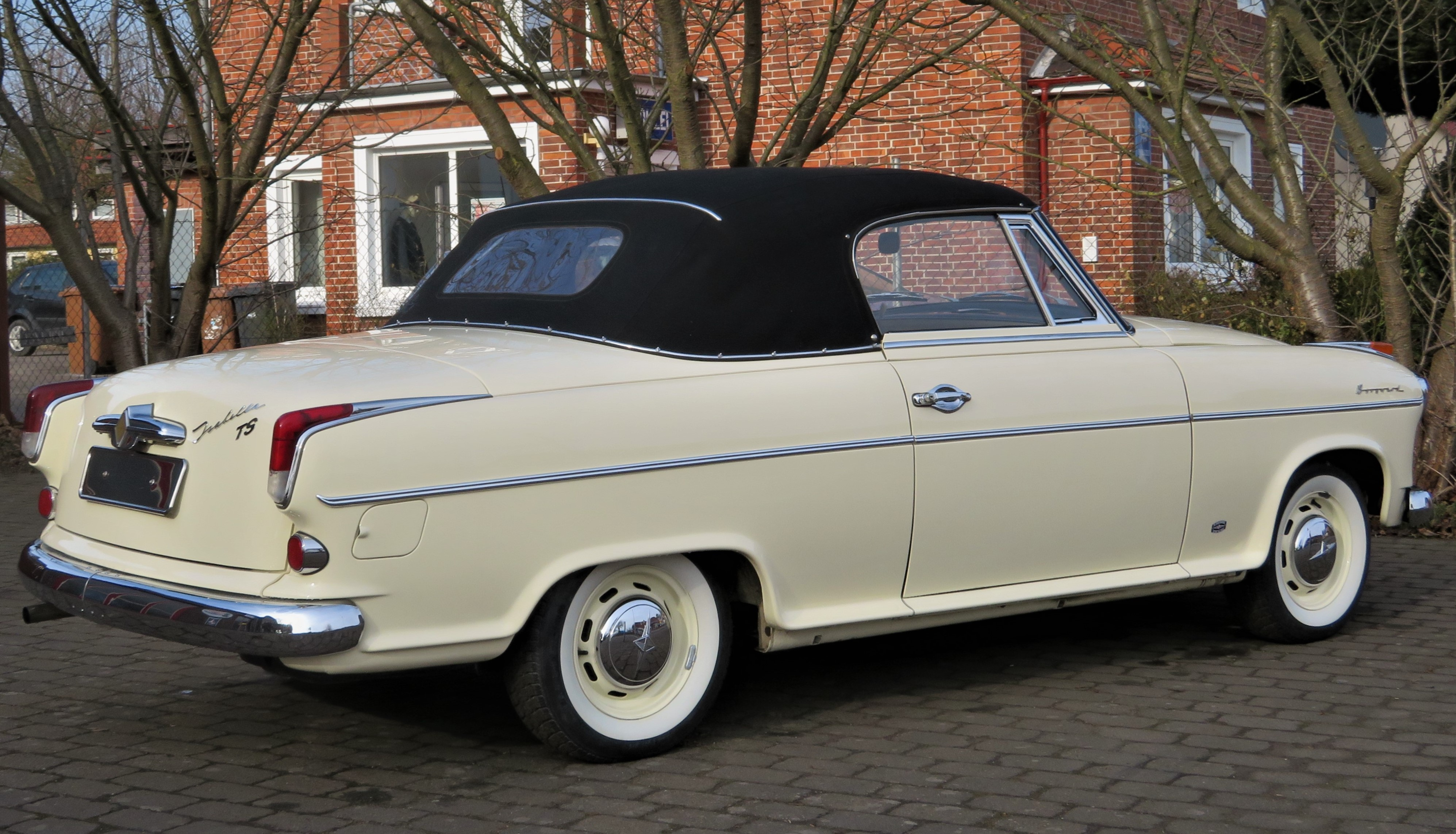 Borgward Isabella Cabriolet bei Fa. Wischnewski